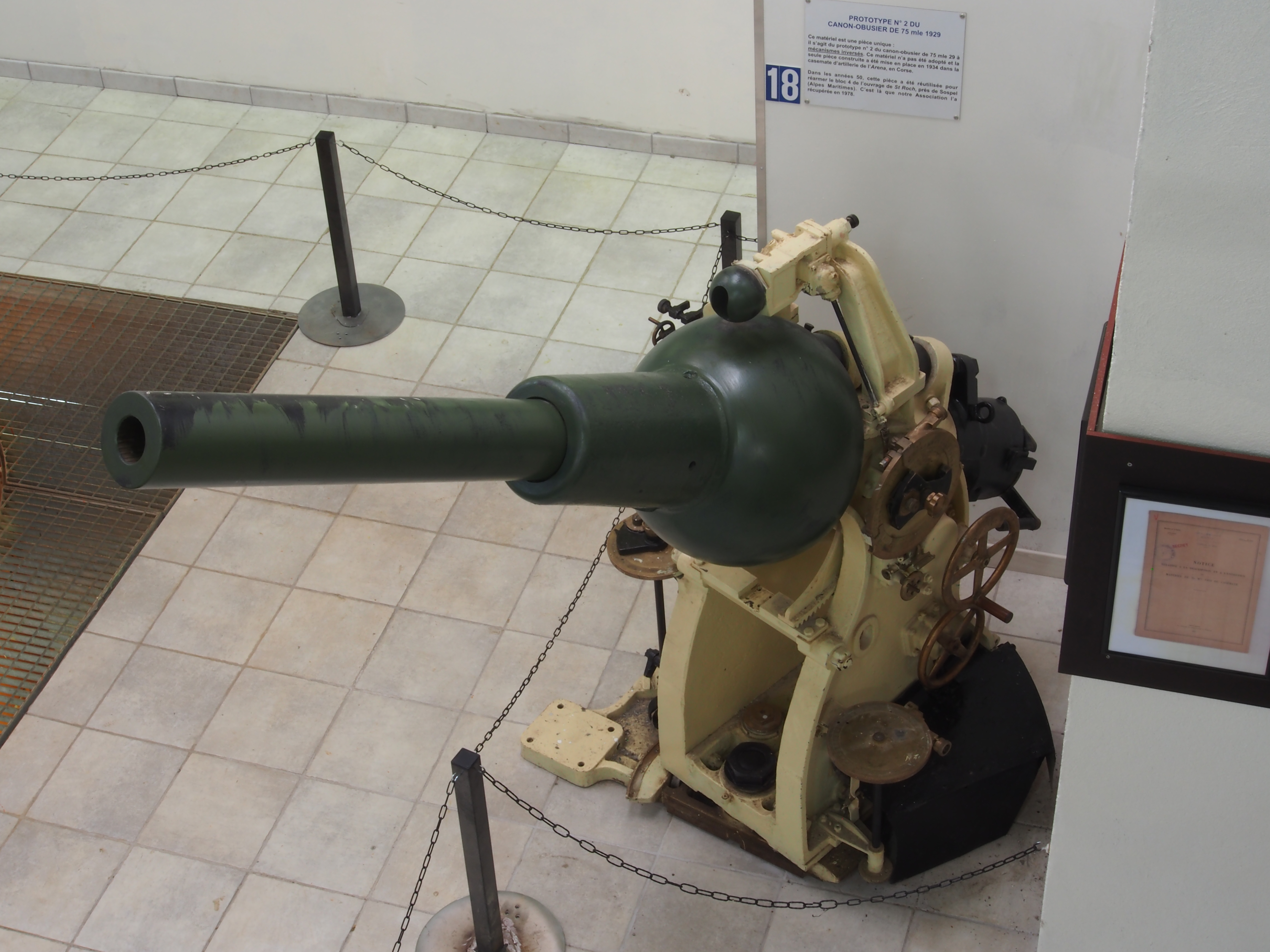 Fort de Fermont and its museum - Prototype No 2 of a 75mm cannon-mortar 1929